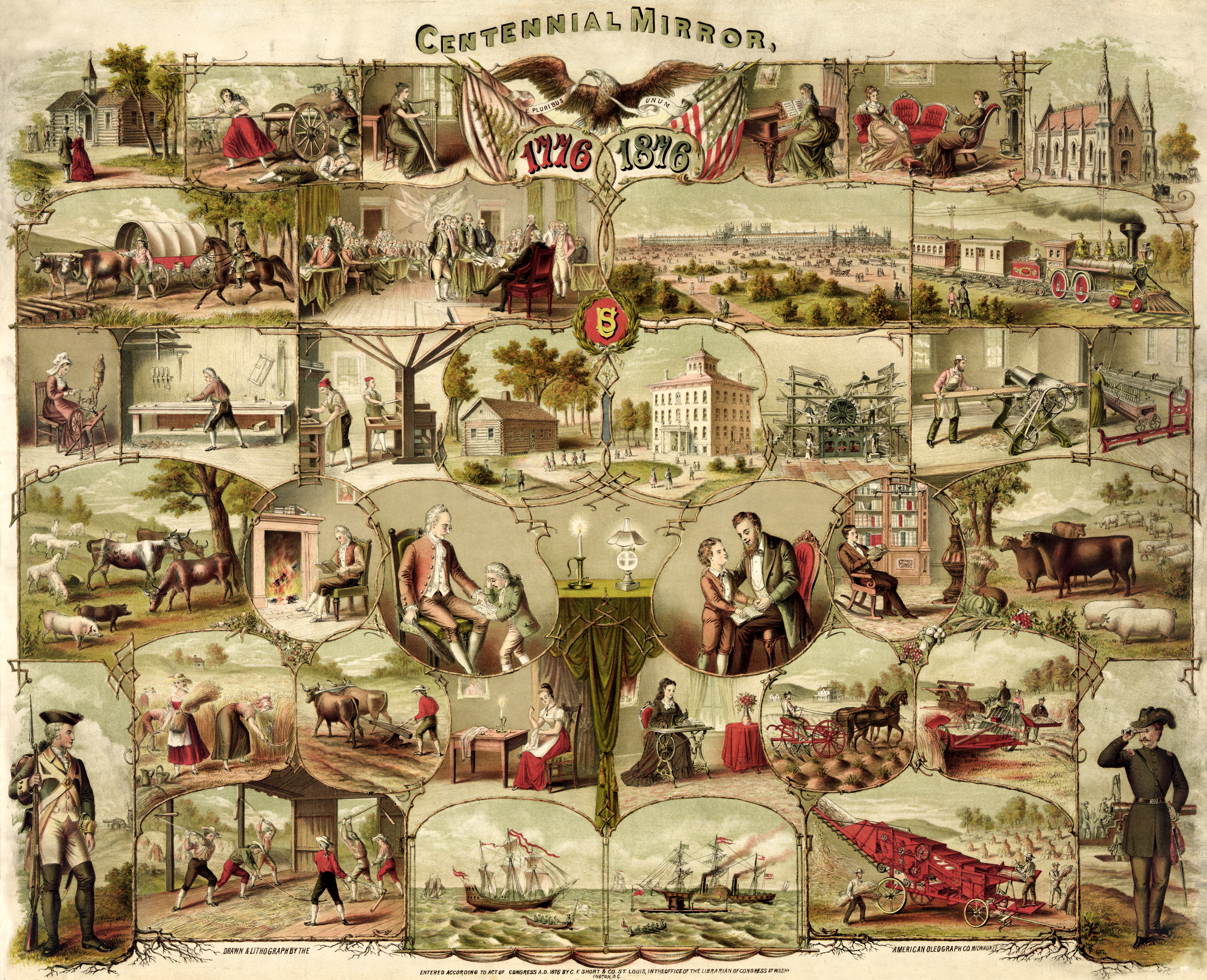 Centennial mirror, poster commemorating 100 years of Independence of the United States, showing on the left, scenes from 1776, and mirrored on the right, equivalent scenes from 1876.